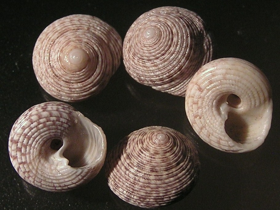 Monilea callifera (Lamarck, 1822), a top snail from the family Trochidae; Australia